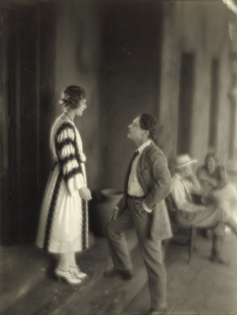 A still of Marjorie Daw and Forrest Stanley from the American drama film The Pride of Palomar (1922).